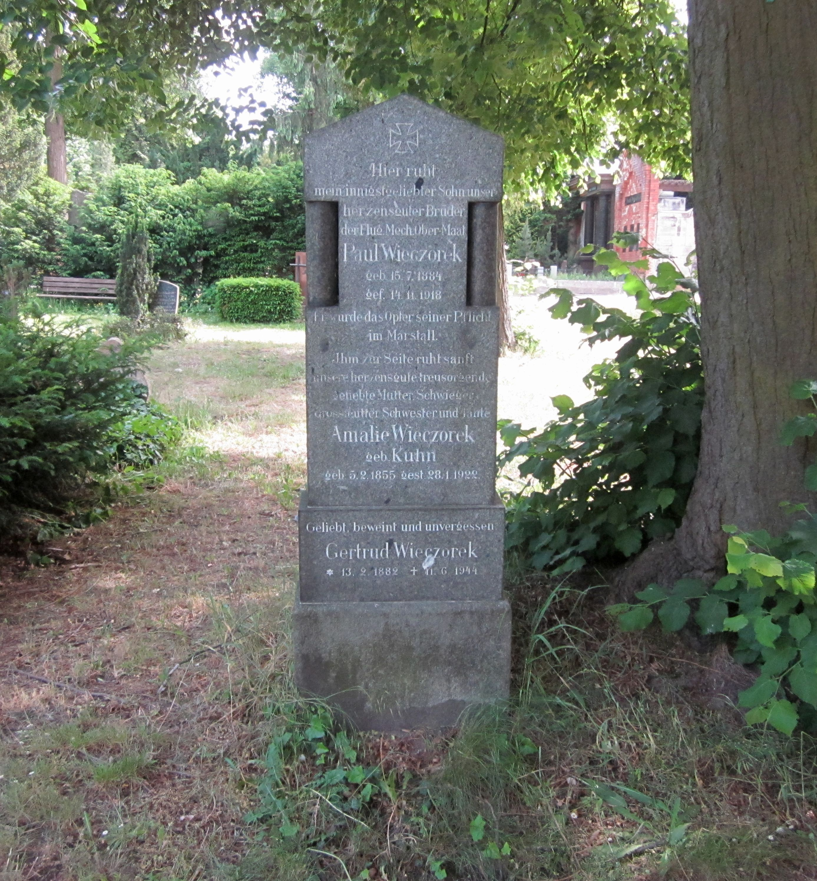 Grave of the navy pilot and participant of the German Revolution of 1918/1919 Paul Wieczorek (1885-1918) on the Cemetery IV of the Jerusalem and New Church at Bergmannstraße 45-47 in Berlin-Kreuzberg. Wieczorek was shot and killed on November 13, 1918 in the Royal Stables in Berlin during an altercation with counterrevolutionary forces.